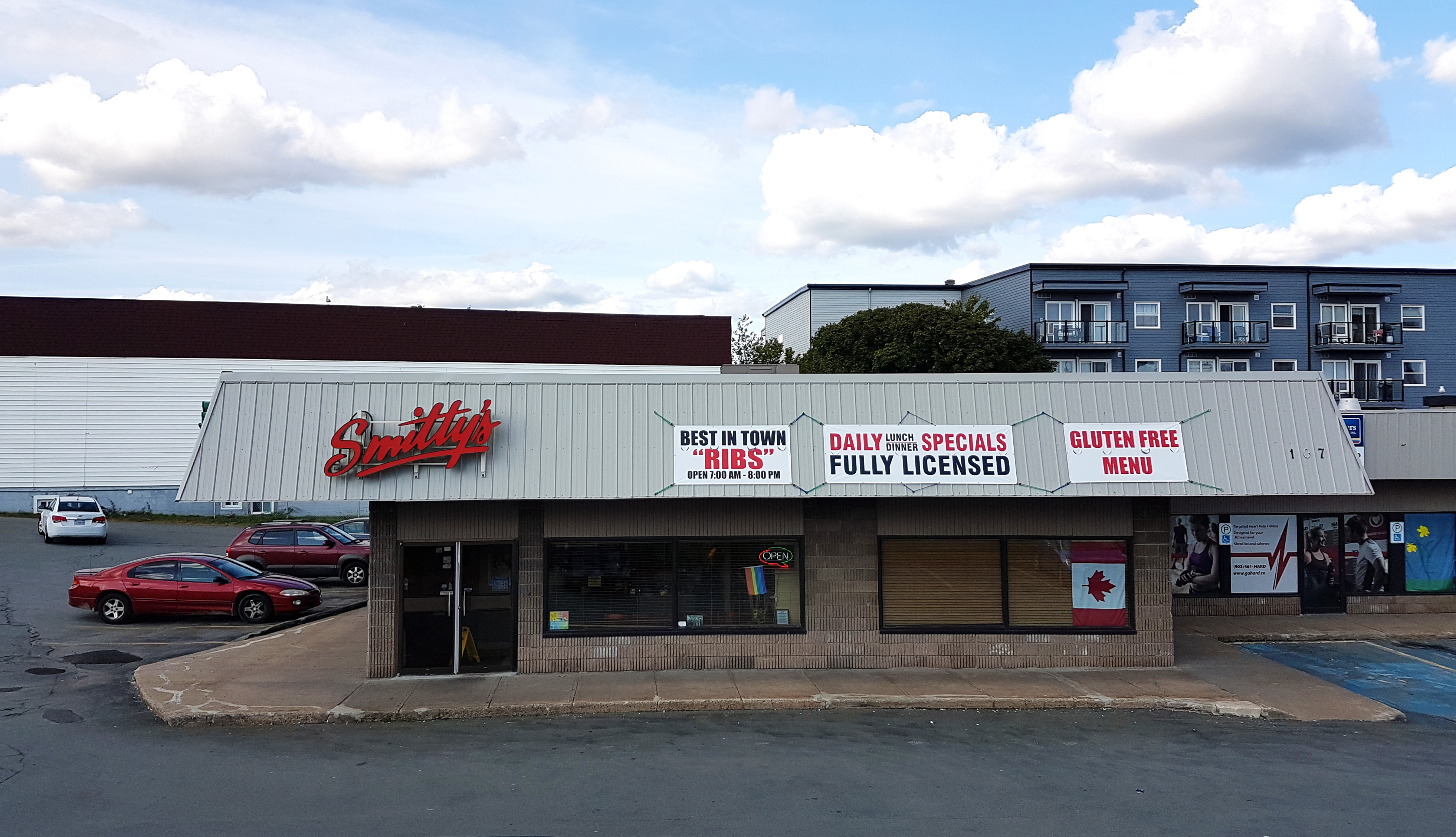 This photo taken on September 30, 2018 shows a restaurant of the Canadian chain Smitty's, located at 107 Main Street in Dartmouth, Nova Scotia.